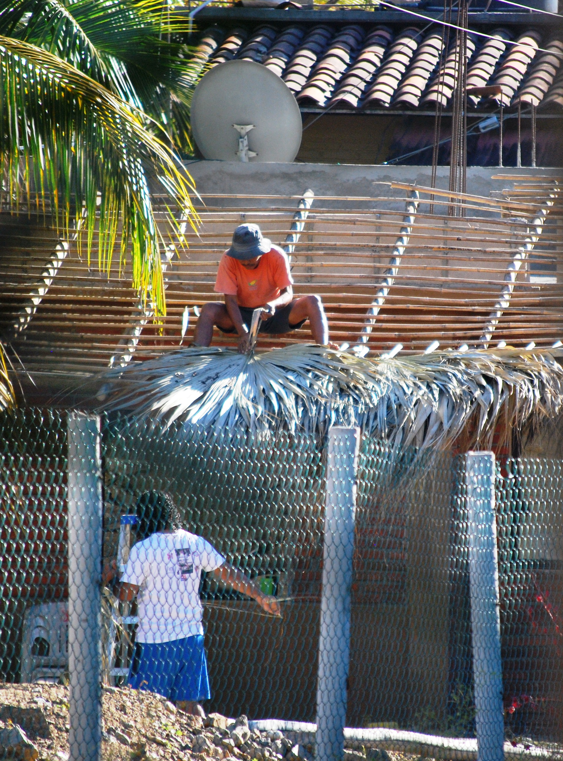 Men building a palapa roof in Mazunte, Oaxaca, Mexico